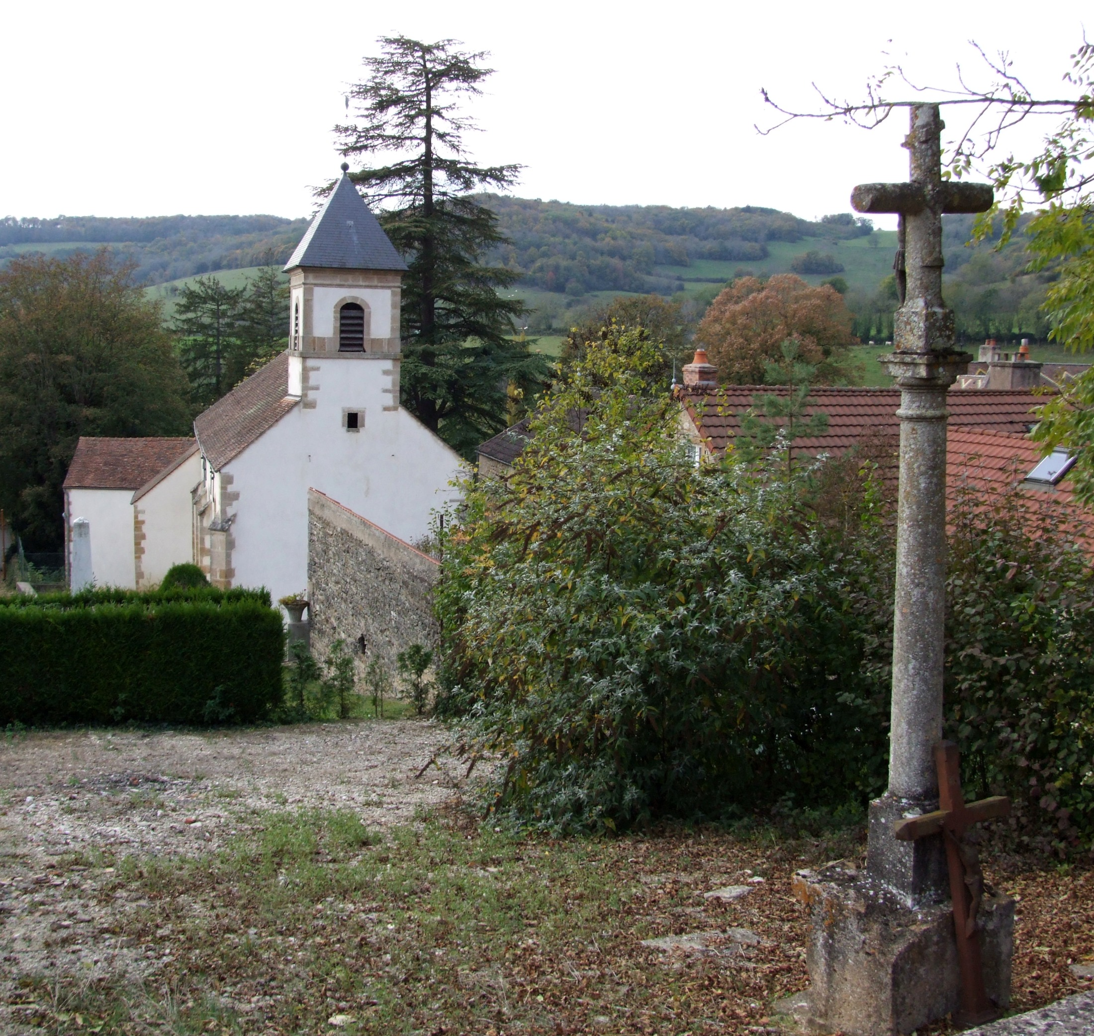 Baulme-la-Roche, Burgundy, FRANCE